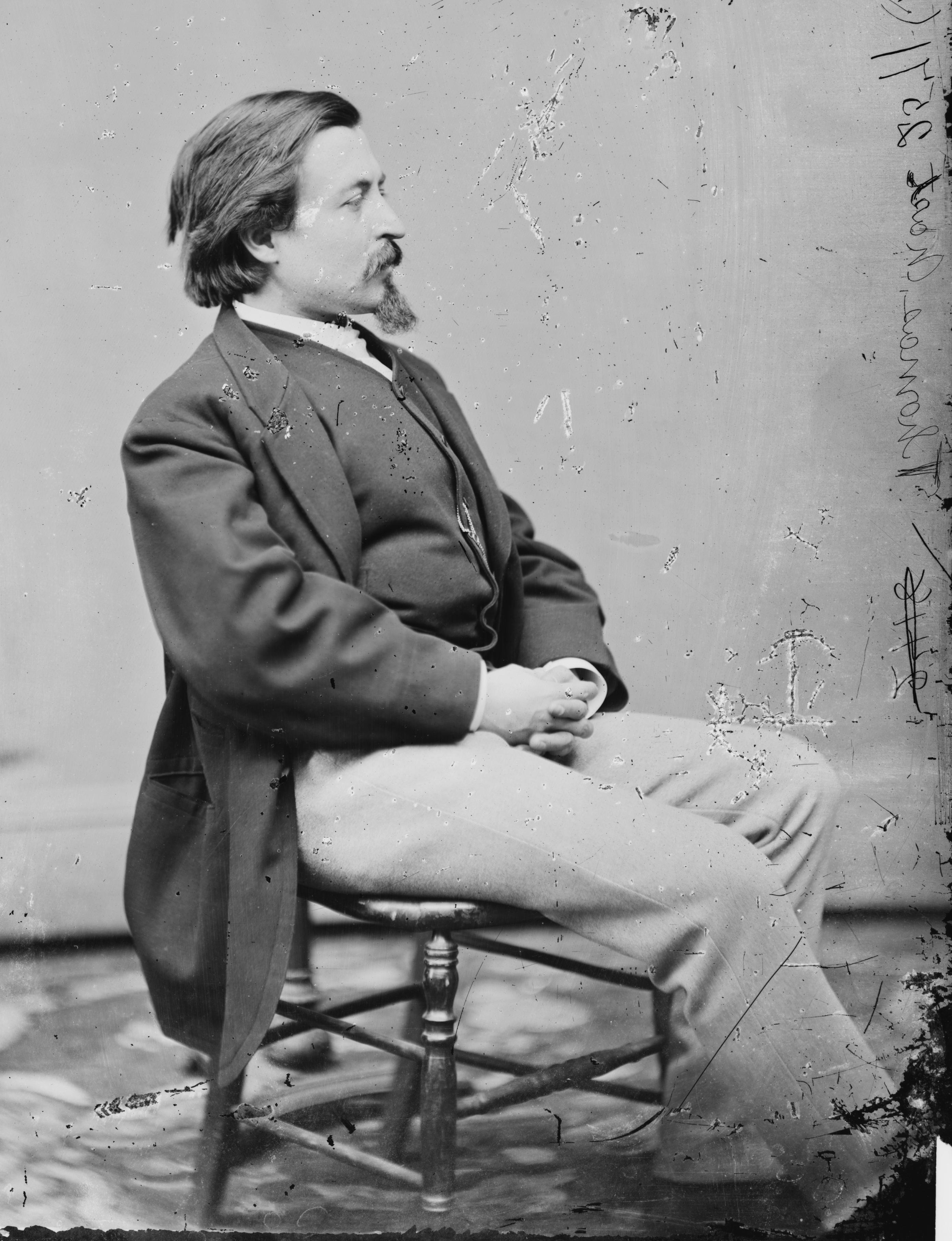 Thomas Nast. Library of Congress description: "Thomas Nast"